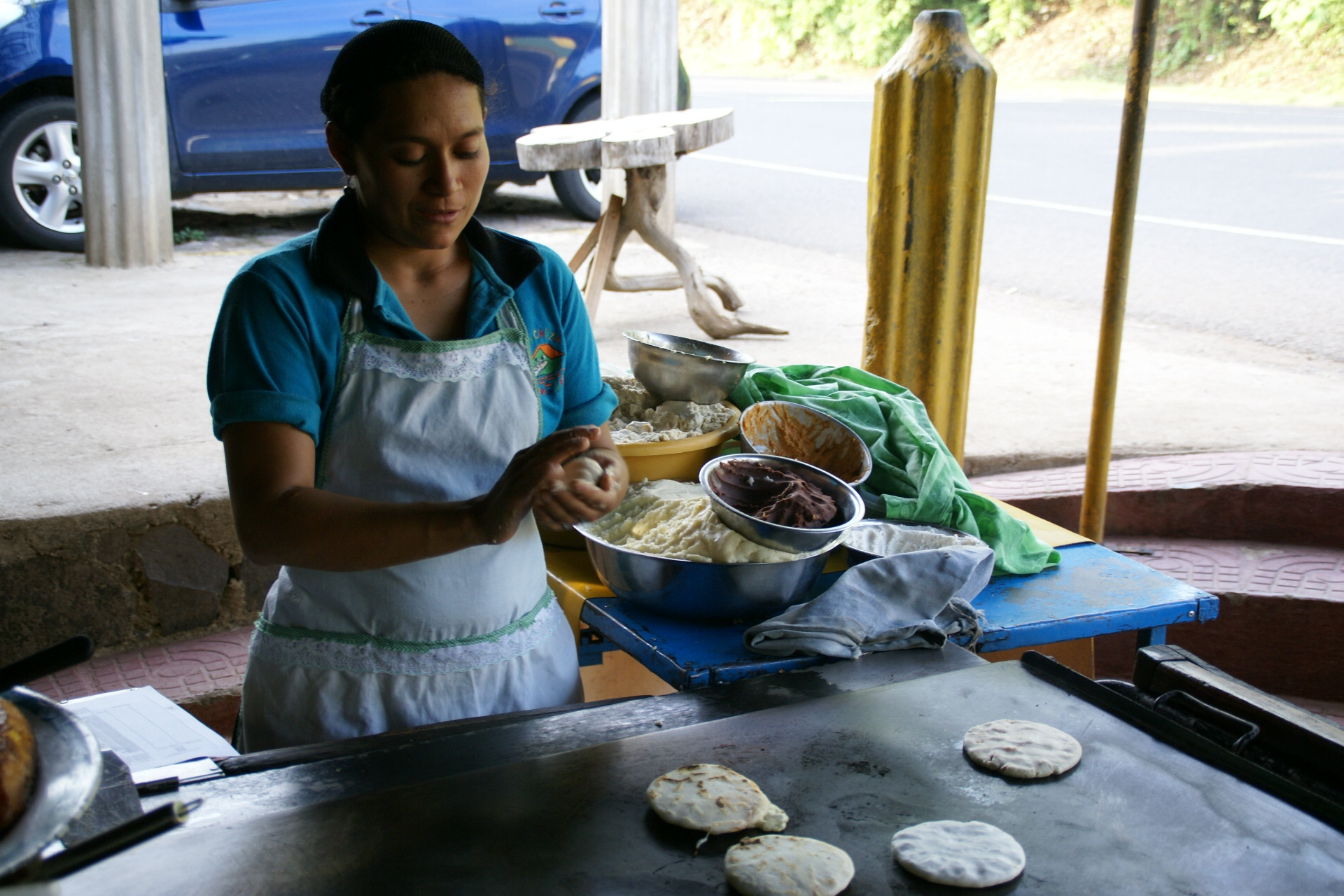 Baking pupusas at Las Chinamas in El Salvador